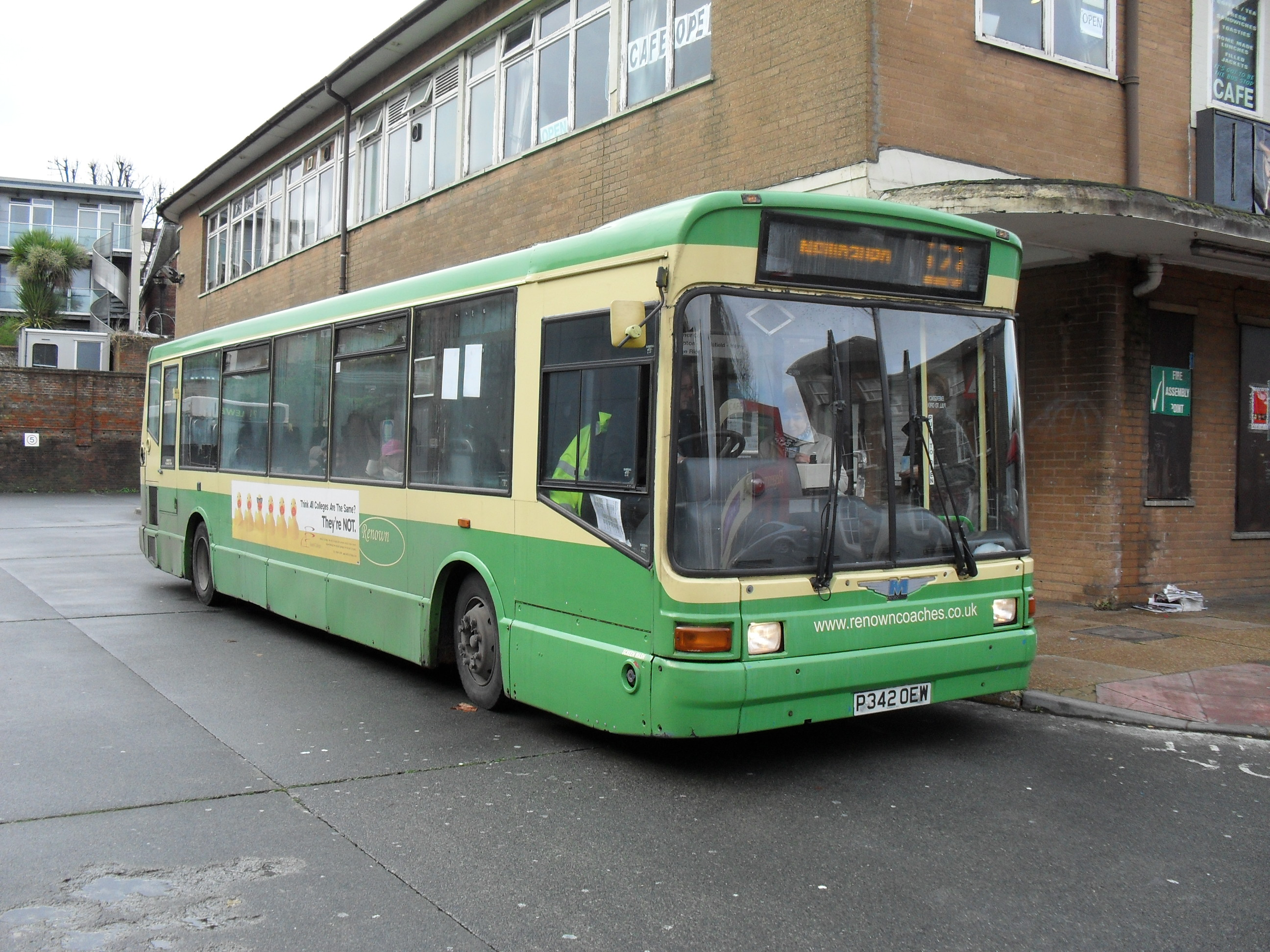 P342 OEW, a Dennis Dart SLF owned by Renown Coaches of Bexhill-on-Sea, is waiting at Lewes Bus Station on 9th November 2010 with a route #123 service to Newhaven. The starting point for this hourly service is the Malling Estate in the northeast of Lewes.